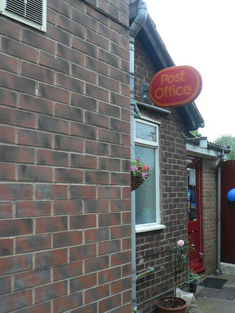 Bole: the post office This picture is taken from halfway up the postmistress's driveway and shows the office, housed in what is really the back porch. The counter is set into the back door and the postmistress is in her kitchen when serving, her computer etc. on the kitchen worktop. The office is at 6 South Street and is due for closure in the new year of 2008.